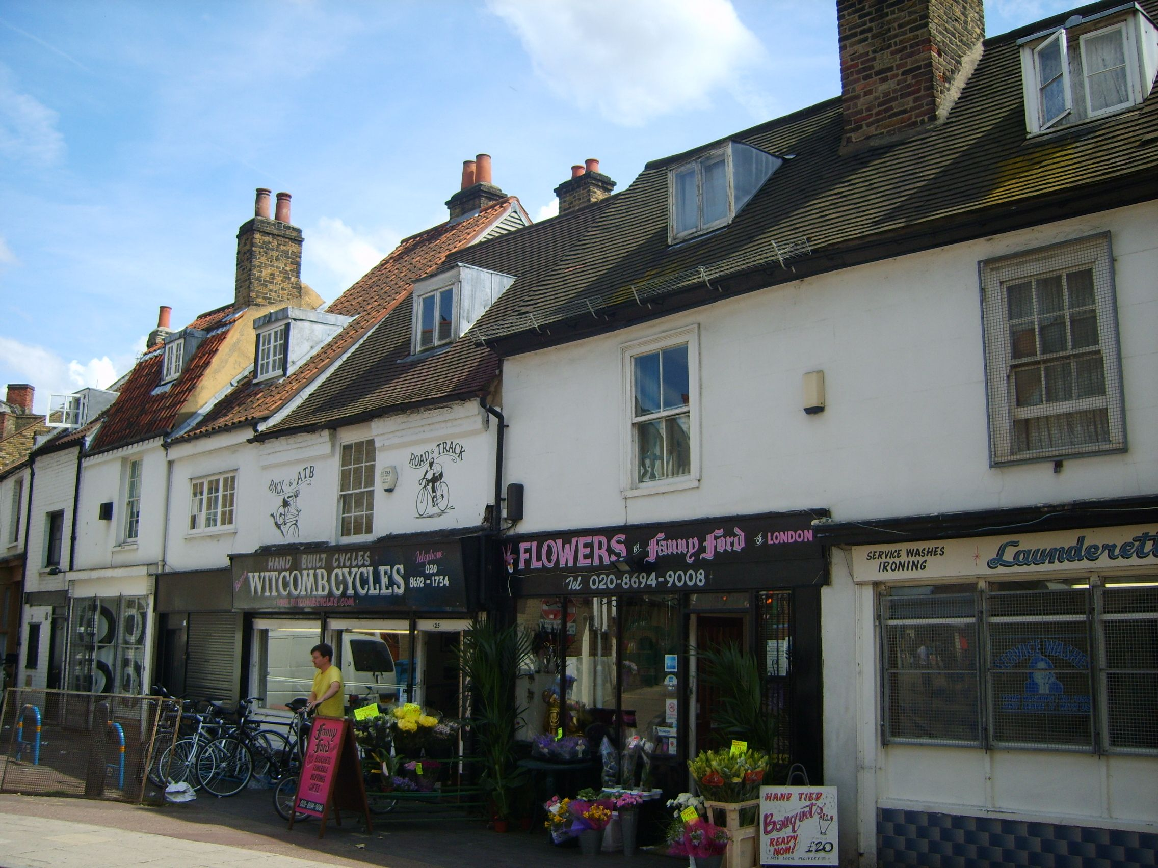 Row of 17th century buildings in Tanners Hill, Deptford, London